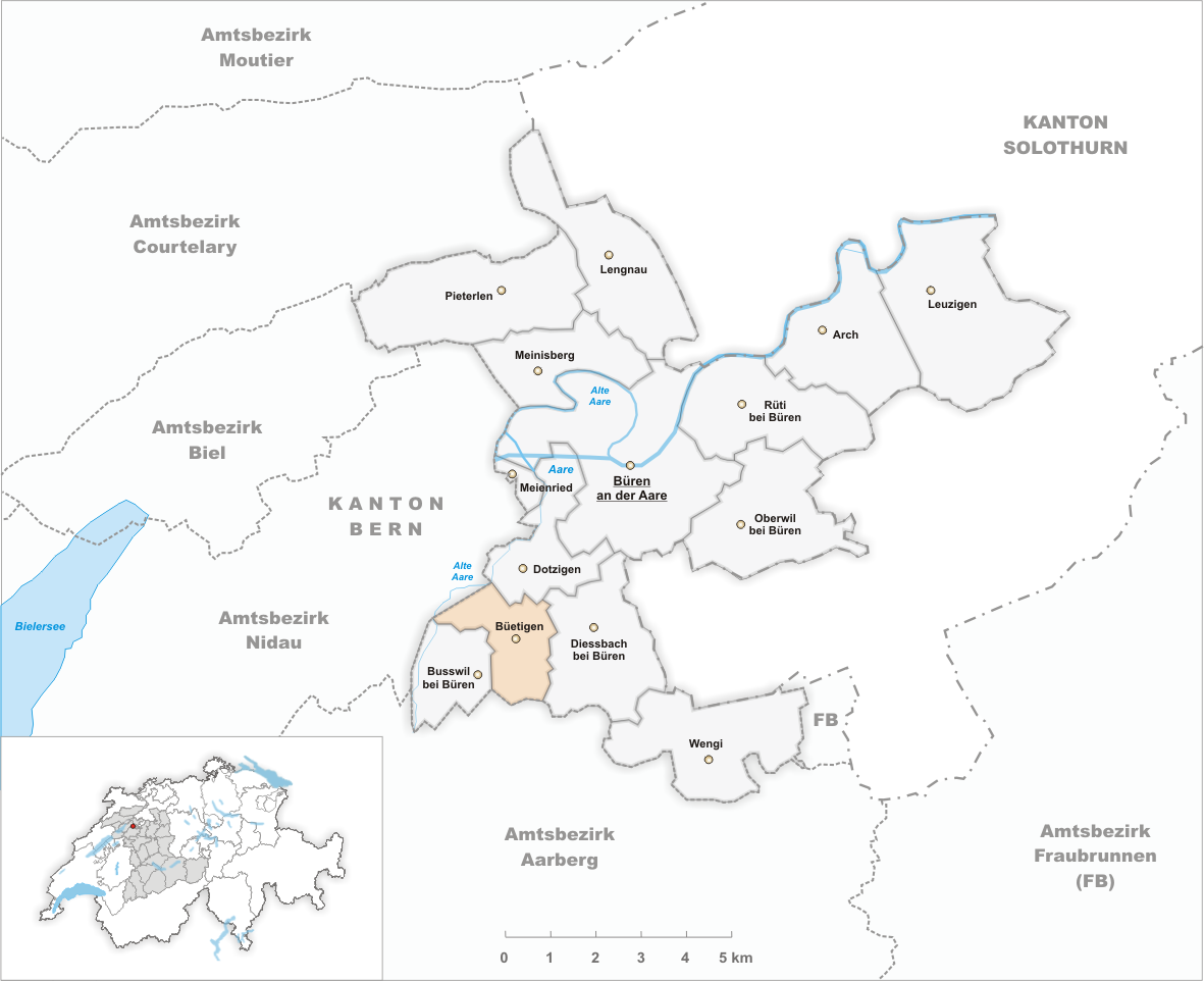 Municipality Büetigen